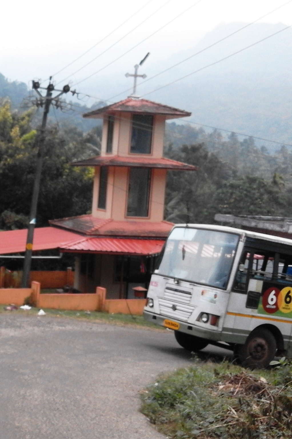 Kakkadampoyil, Kerala, India.